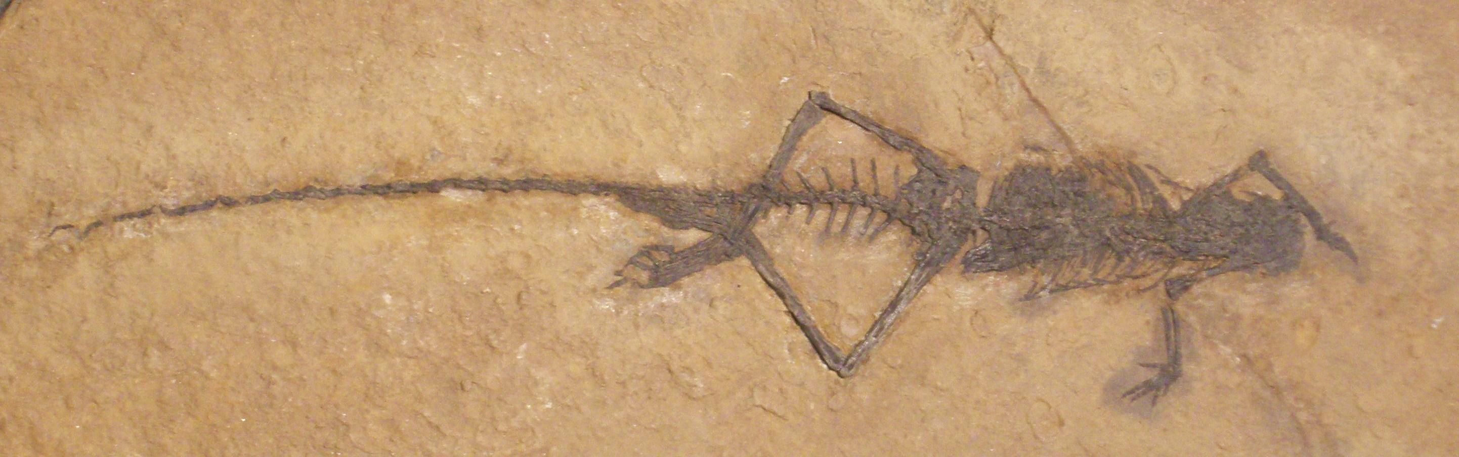 Fossil of Langobardisaurus pandolfii, an extinct reptile